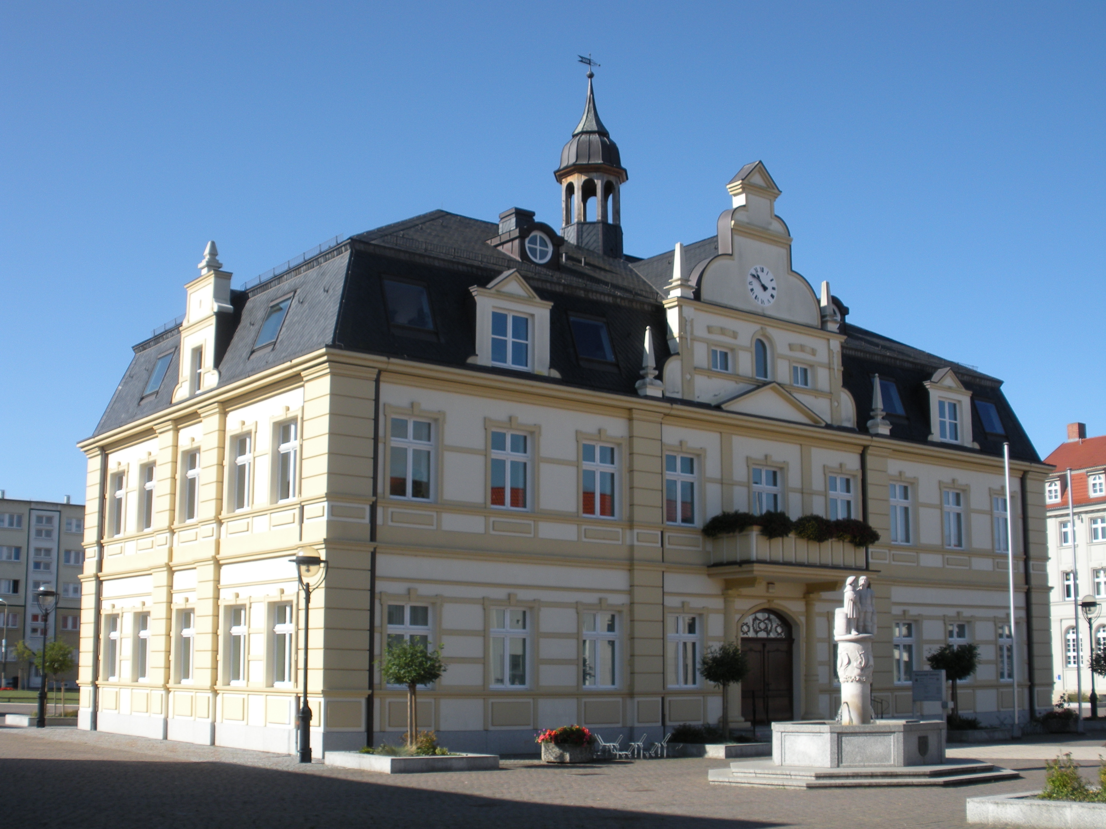 Town Hall in Demmin